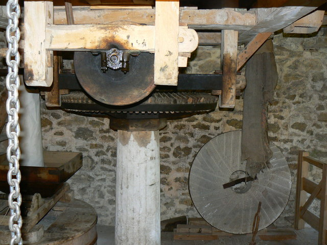 Crown wheel in a watermill at Coleshill, Oxfordshire (formerly Berkshire)